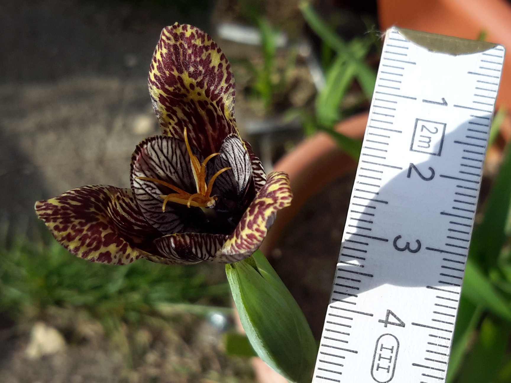 Flower of Tigridia vanhouttei. Ruler is marked in centemeters.